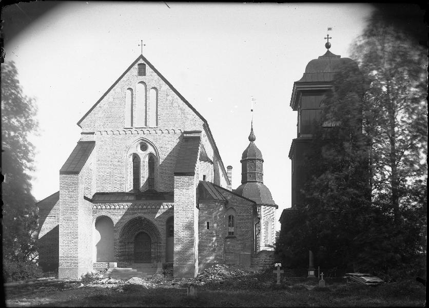 Outside Skoklosters kyrka in Sweden. 1917.